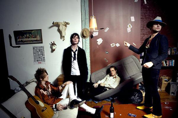 A photo of the band The Films.